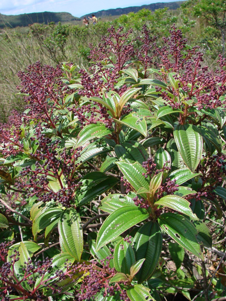 Miconia theizans (Bonpl.) Cogn. - sin. hom. Miconia theizans subsp. theaezans (Bonpl.) Cogn. - MELASTOMATACEAE - Parque Nacional da Chapada Diamantina - Palmeiras - Bahia - Brasil.